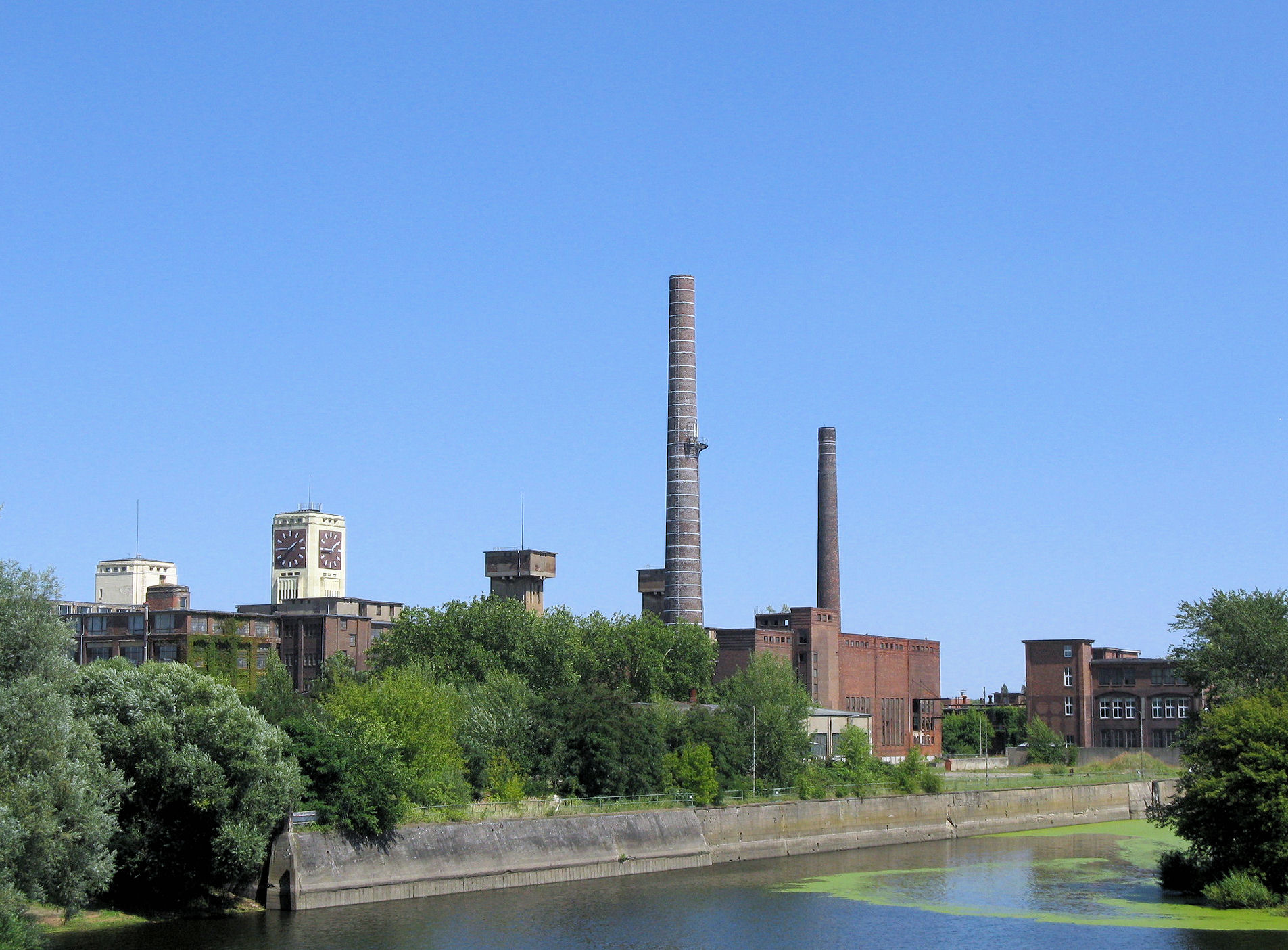 Sewing machine factory in Wittenberge, disctrict Prignitz, Brandenburg, Germany